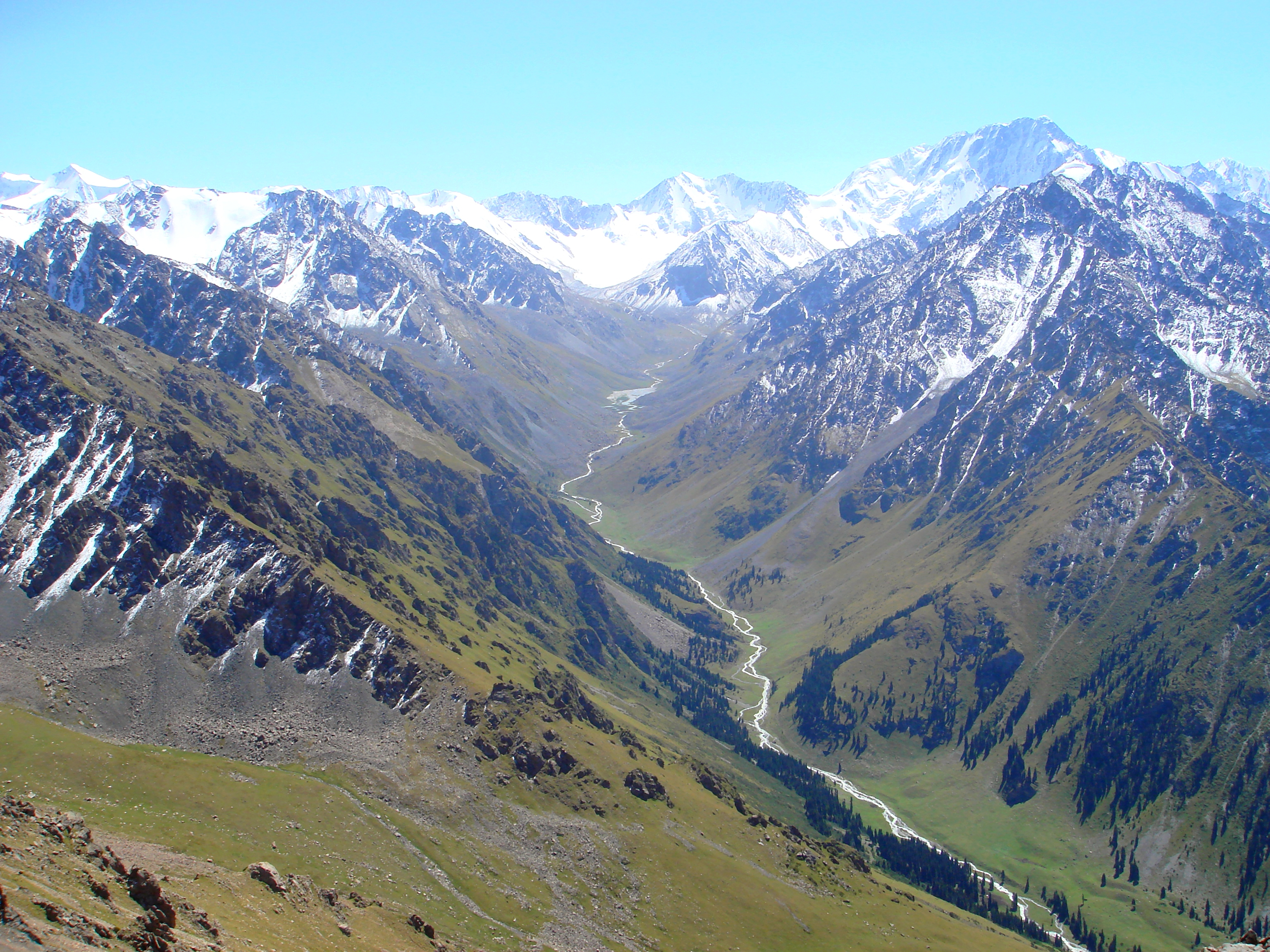 The Terskey Alatau mountain range and the Köl-Tör Valley viewed from a pass under the Bear Mountain top (Issyk Kul Province, Kyrgyzstan).